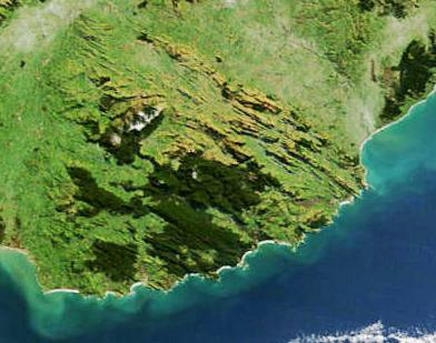 This satellite image shows the Catlins, a region in the southeast of New Zealand's South Island, after a severe blizzard hit the island in July 2003. The dark green areas are forested, while most of the light green and yellow areas are farmed. White patches are covered in snow.